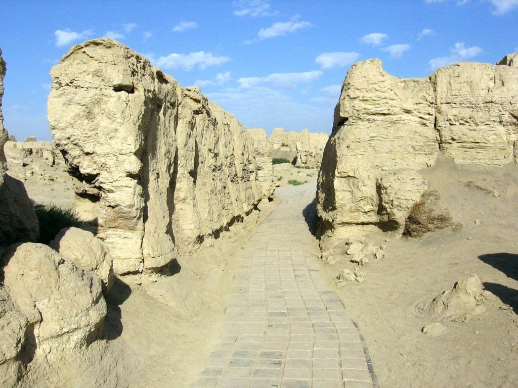 Turfan (Turpan/Tulufan) is an oasis city in the Xinjiang Uygur Autonomous Region of the People's Republic of China. Jiaohe ruins.